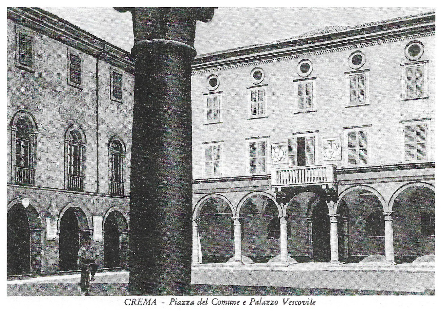 Postcard of the late thirties. Bishop's palace od Crema (Italy)